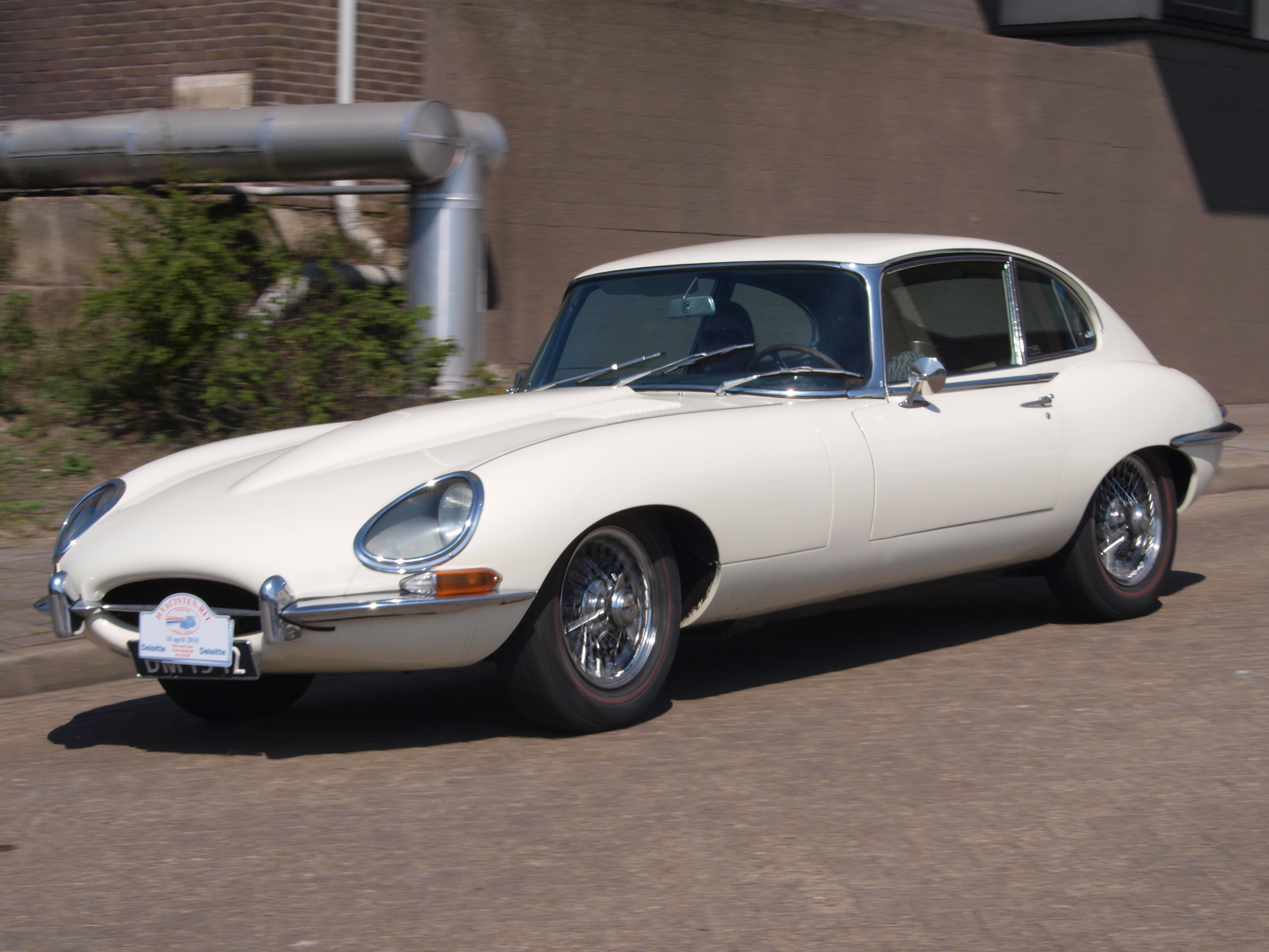 Photographed at the Hyacintenrit 2010, The Netherlands.